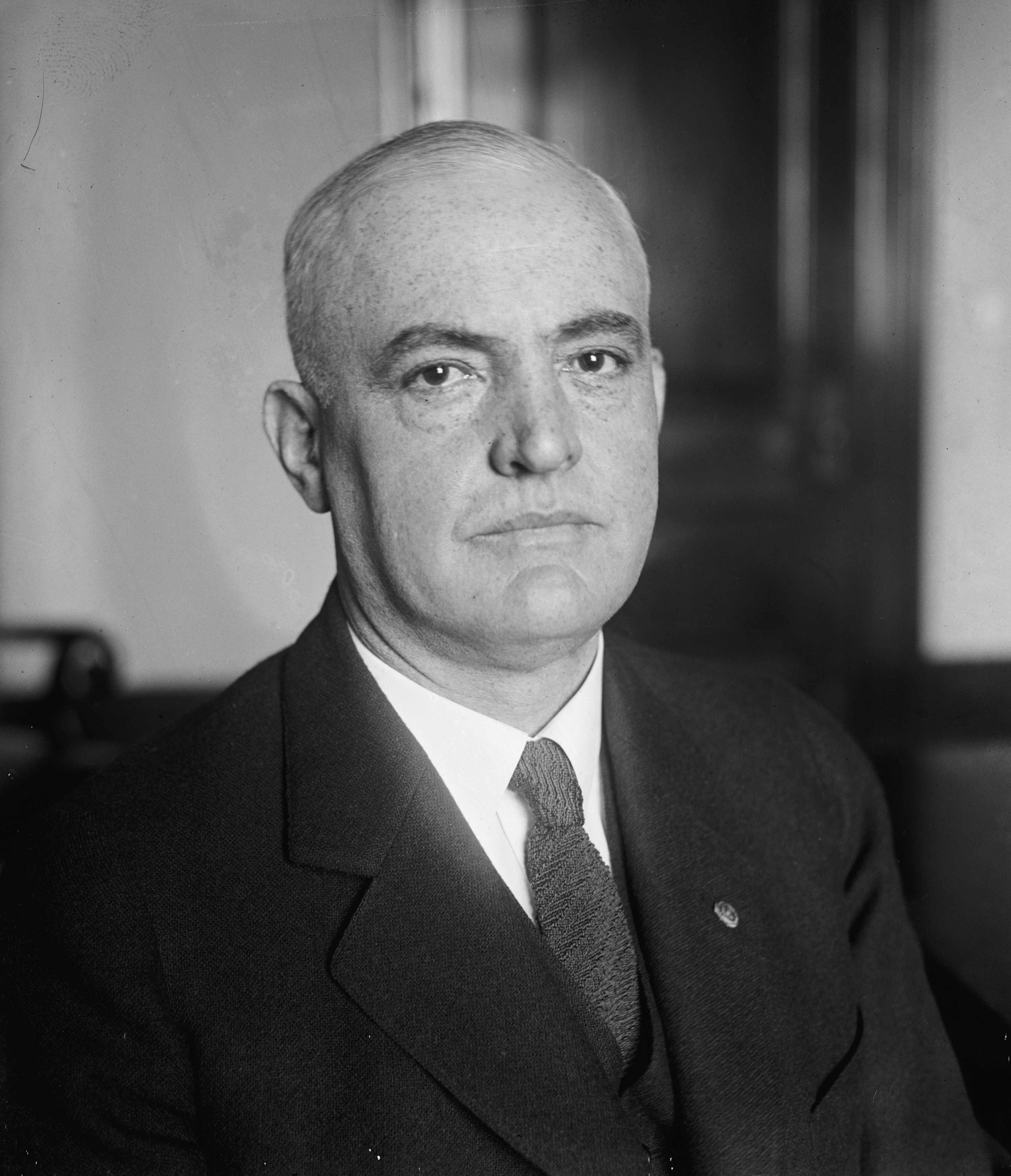 Title: Senator Rice W. Means of Colorado, [12/1/24] Abstract/medium: 1 negative : glass ; 4 x 5 in. or smaller